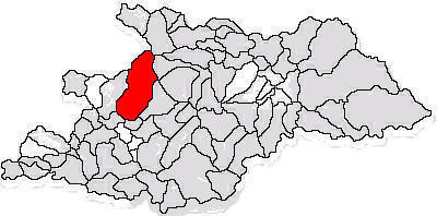 Limits of Baia Mare in Maramureş county